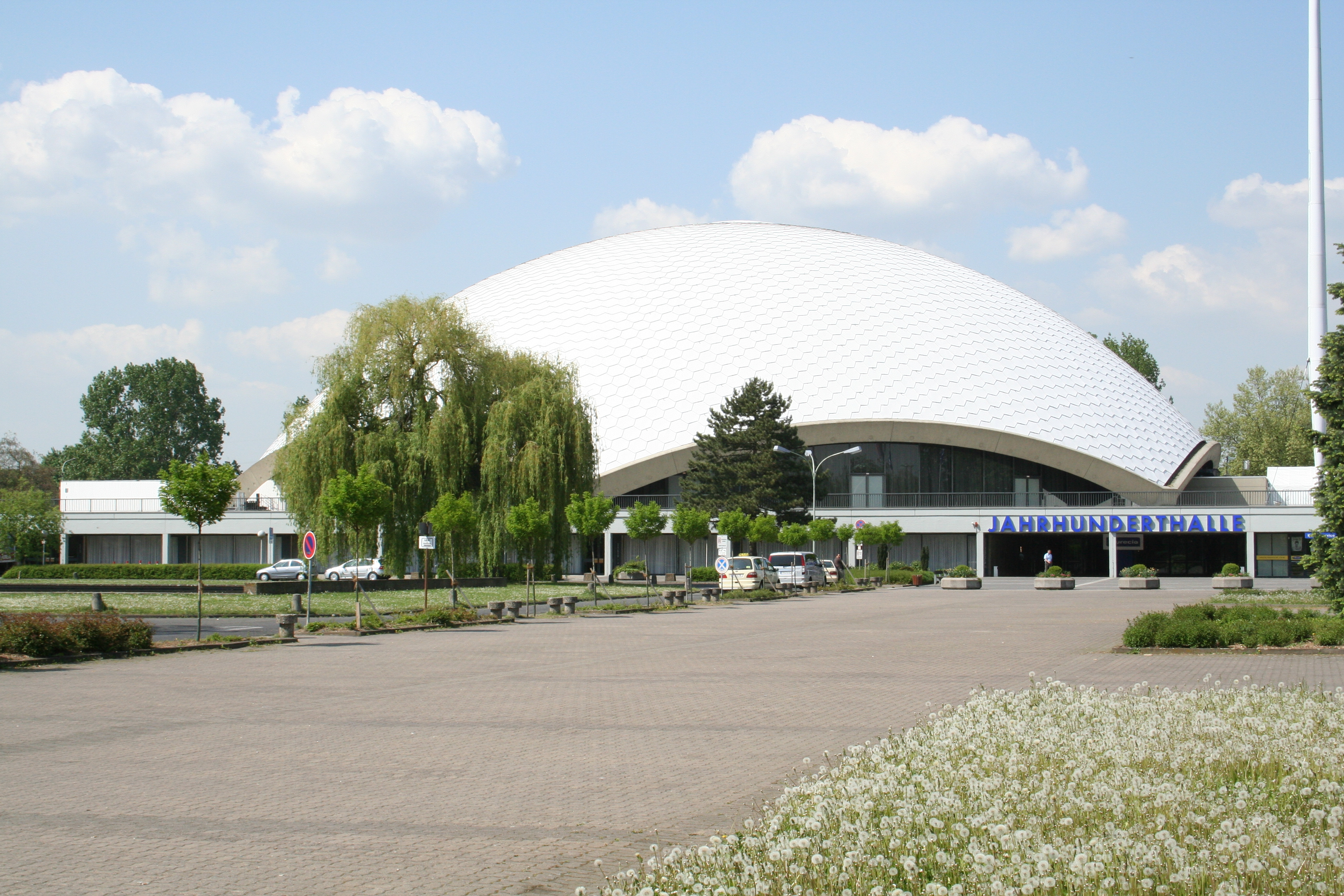 front of Jahrhunderthalle (Centennial Hall)